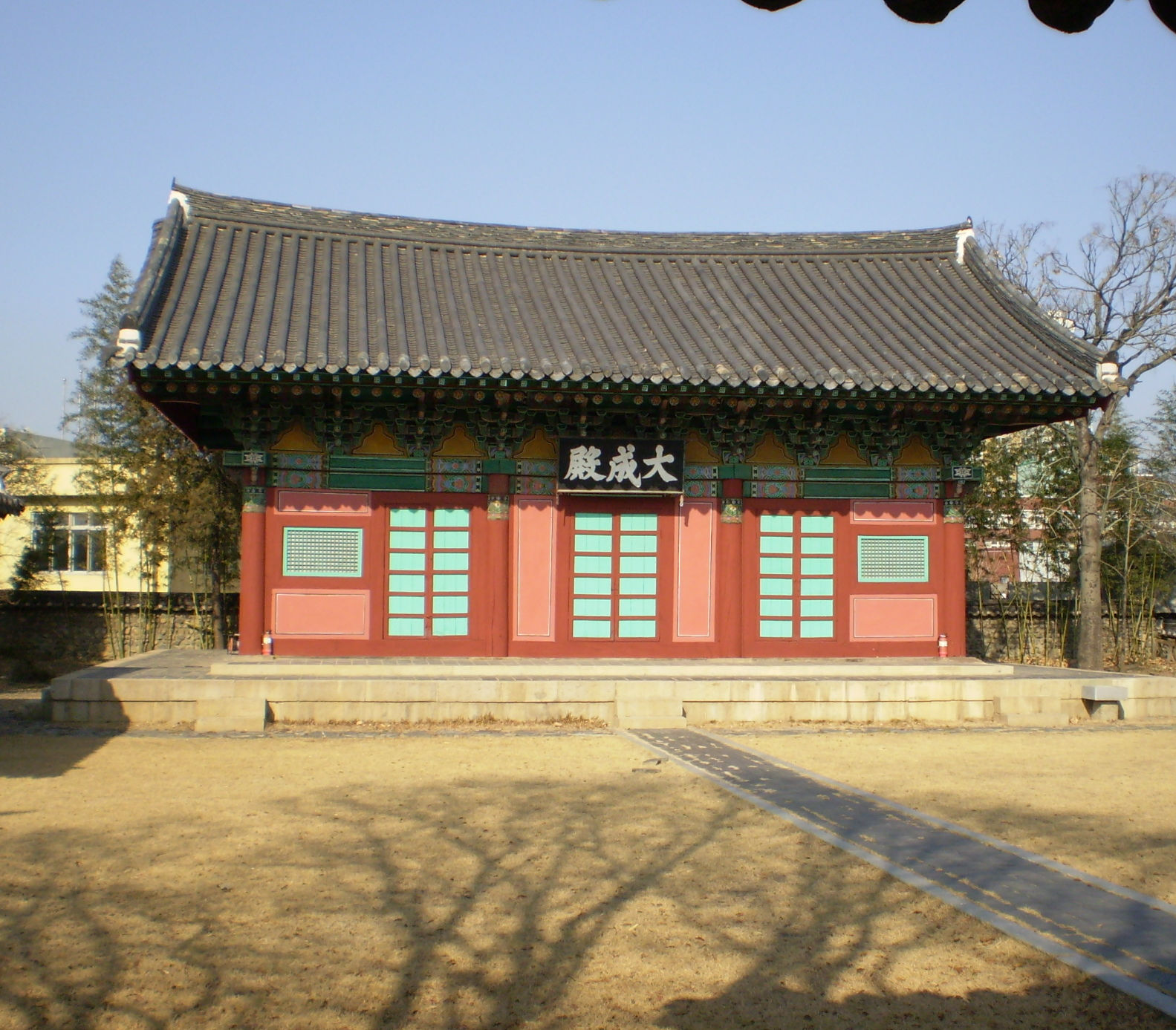 Daeseongjeon shrine at the Daegu hyanggyo in Daegu, South Korea.